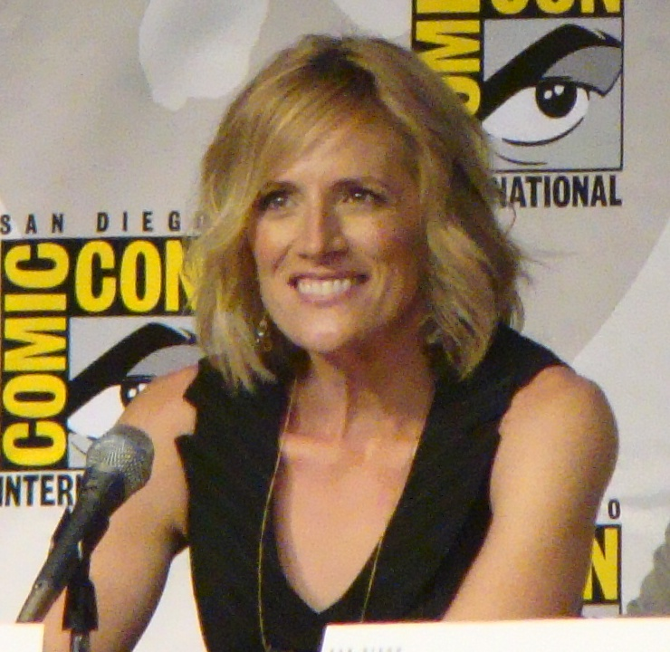 Kirsten Nelson at Comic Con 2010 during a Psych panel.